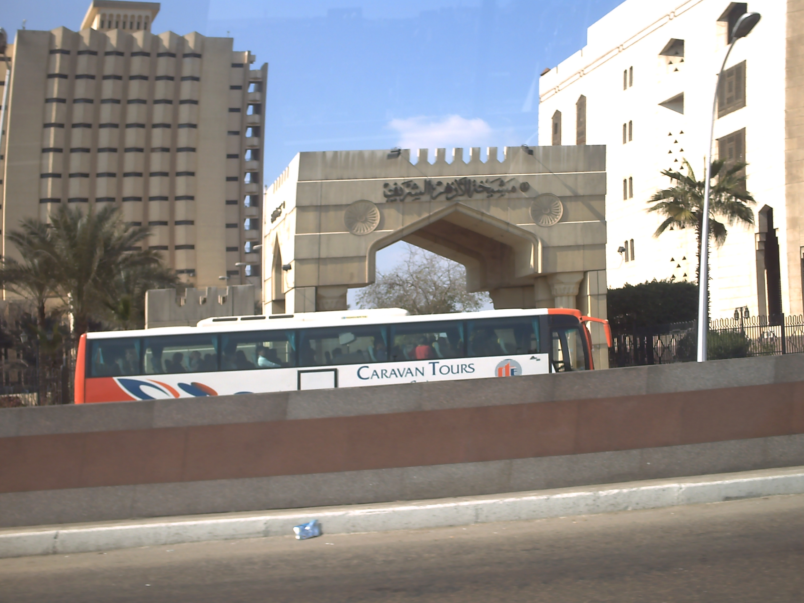 gate Azhar University ,Cairo